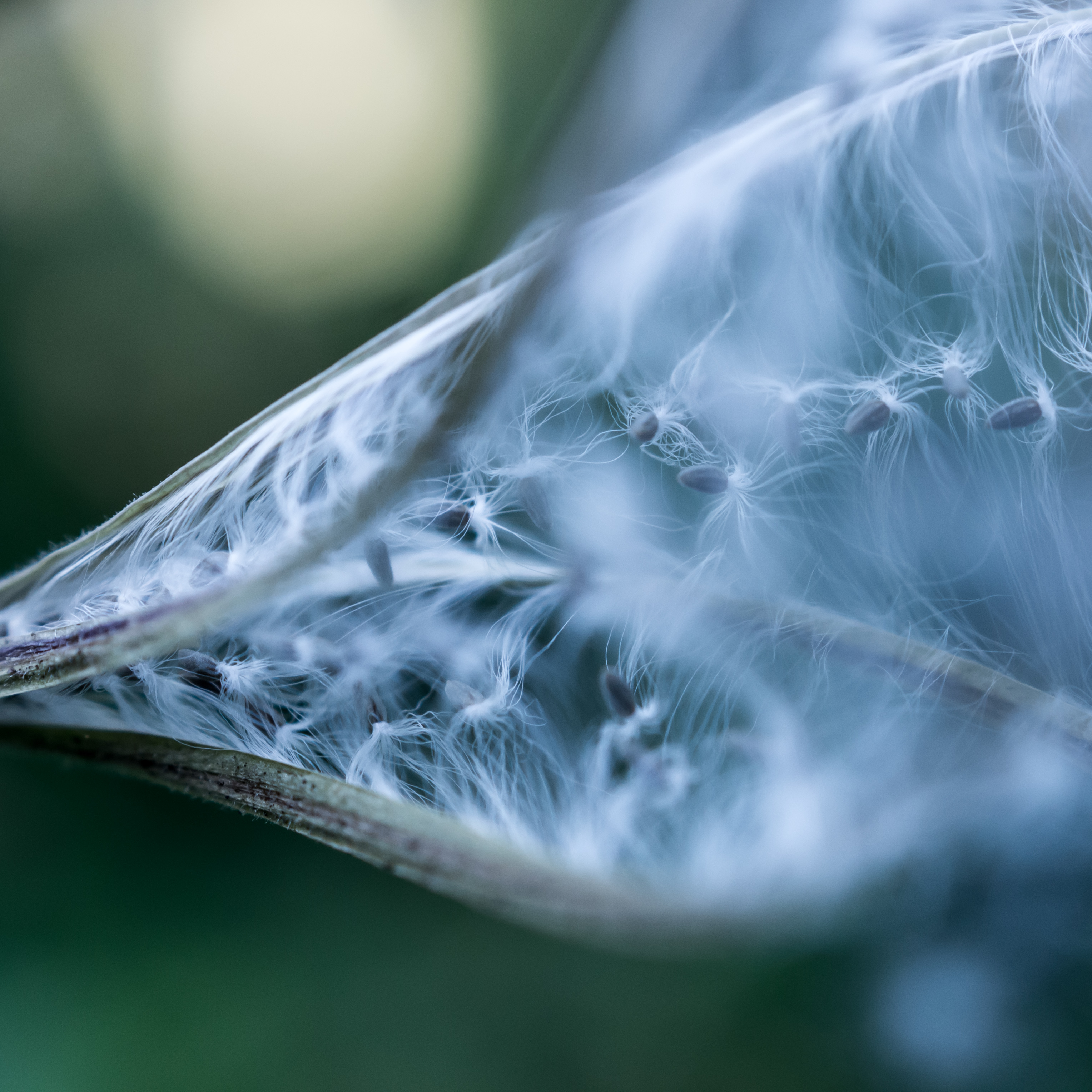 The seed head of a Great Willowherb (Epilobium hirsutum).